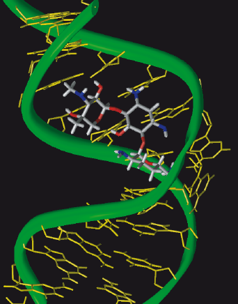 Bacterial ribosomal A-site bound to the antibiotic gentamicin